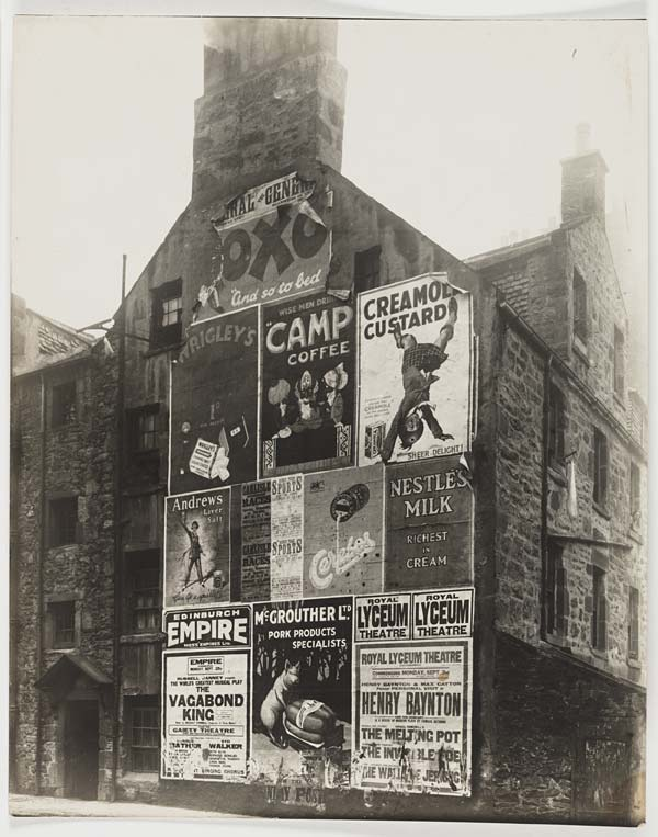 Photograph of a three storey tenement building covered in eleven large poster advertisements. The posters cover one entire side of the building and are for a variety of different products. On the right there is a washing line with some laundry hanging from it. Some of the posters are simply text eg. Edinburgh Empire, while others include images eg. Camp Coffee.